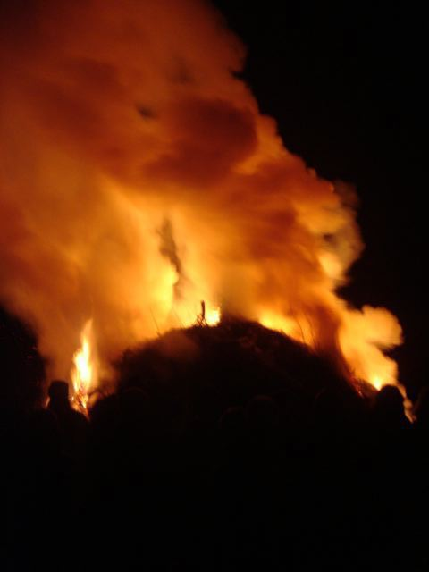 Easter fire in Balve, Germany